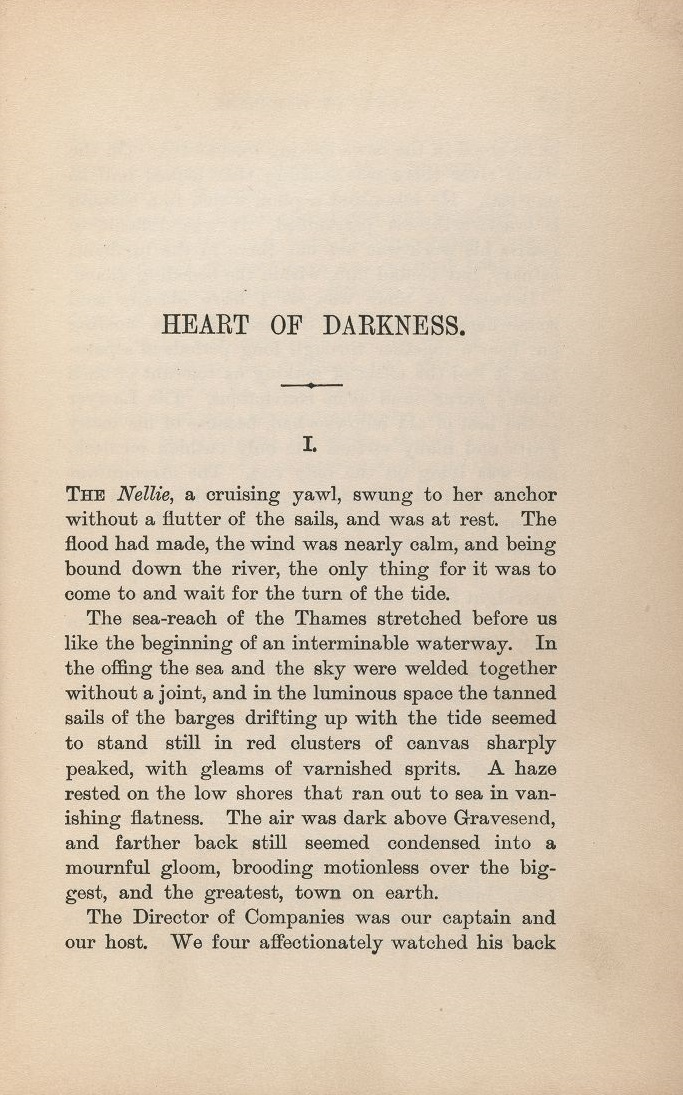 First page of "Heart of Darkness" from Youth, a Narrative, and Two Other Stories by Joseph Conrad (1857-1924). William Blackwood and Sons, Edinburgh and London, 1902. *EC9 C7638 902y (A), Houghton Library, Harvard University